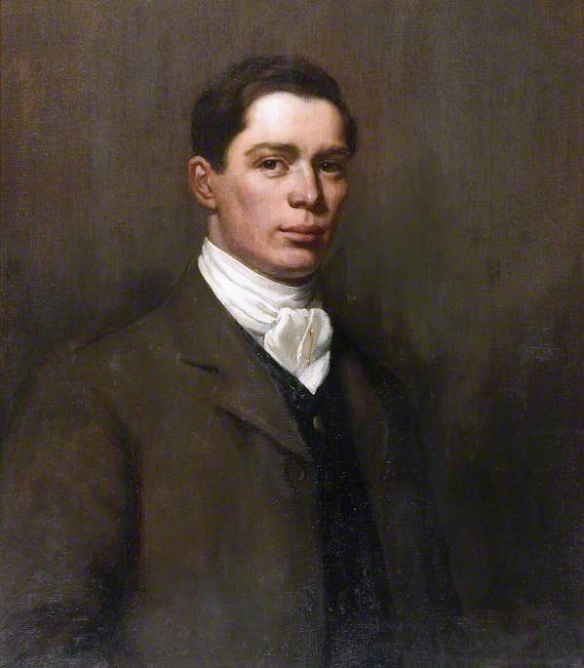 Self-portrait oil on board 71 x 62 cm 1908